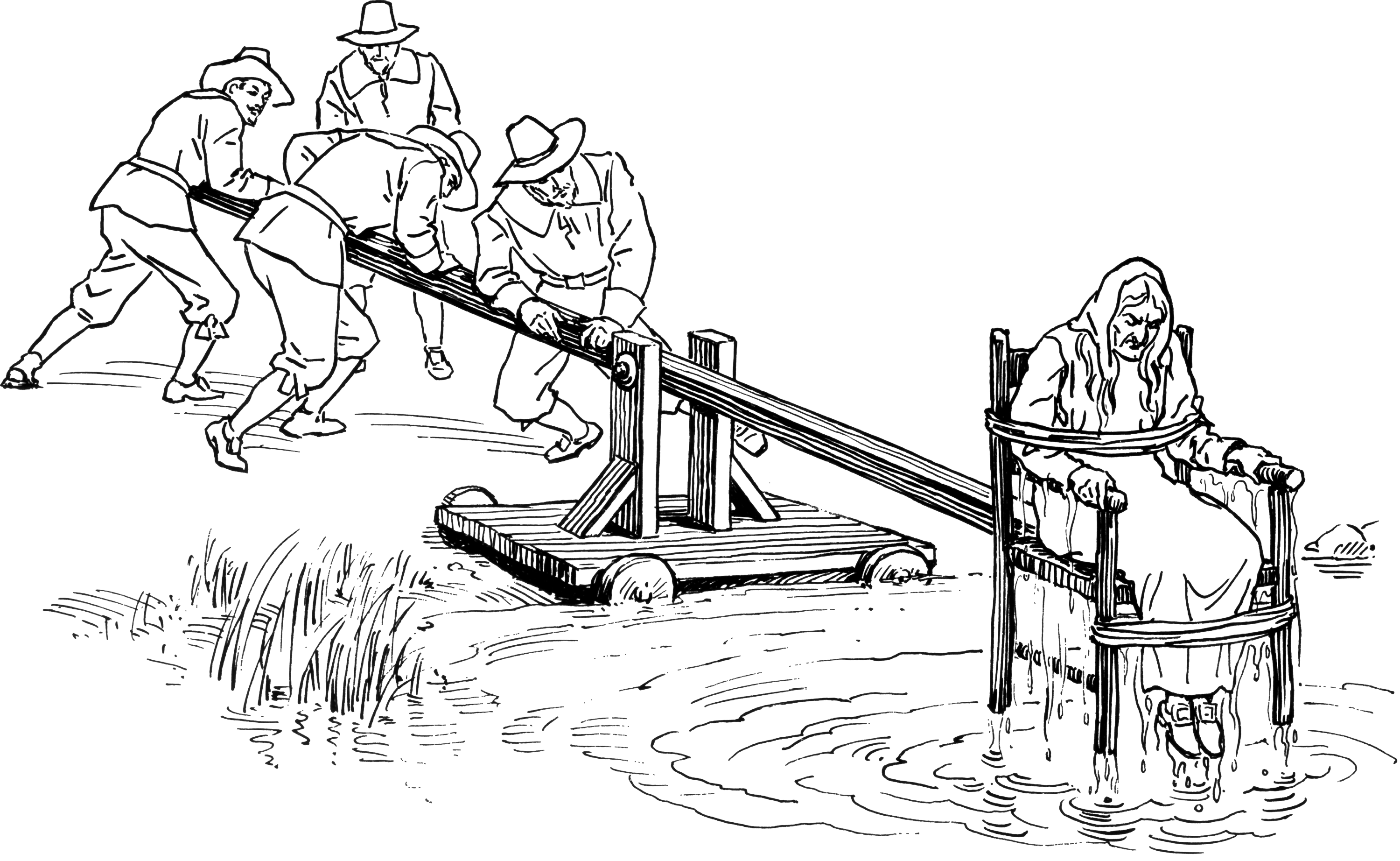 Line art drawing of a Ducking Stool